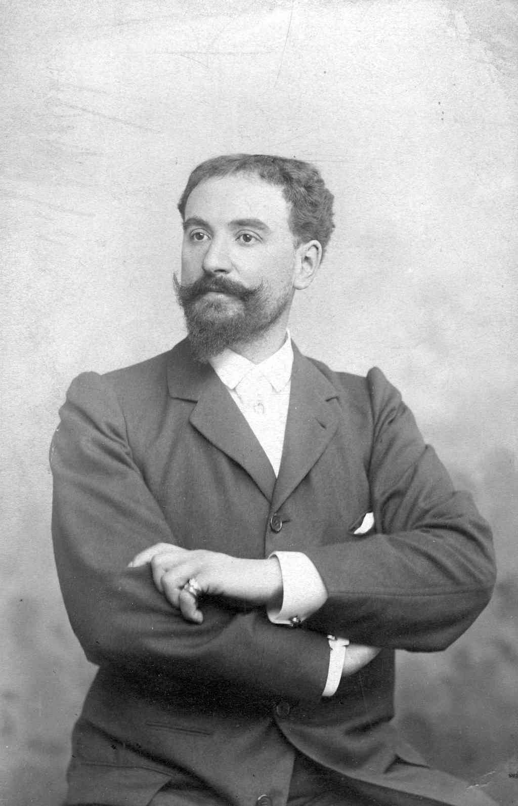 Pol Henri Plançon (1851–1914), French bass star of the Metropolitan Opera, wearing a diamond horse shoe pin. Photo: Benque N Co. 33 Rue Boissy D'Anglas, Paris, 1881, Hôtel Particulier. Exposition: 5 Rue Royale Paris.